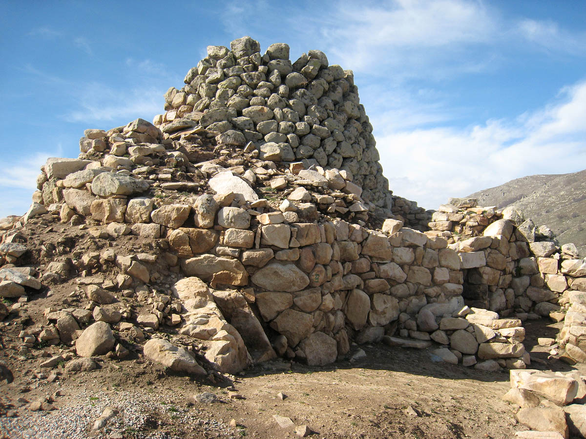 A nuraghe in the Gennargentu mountains, Sardinia.